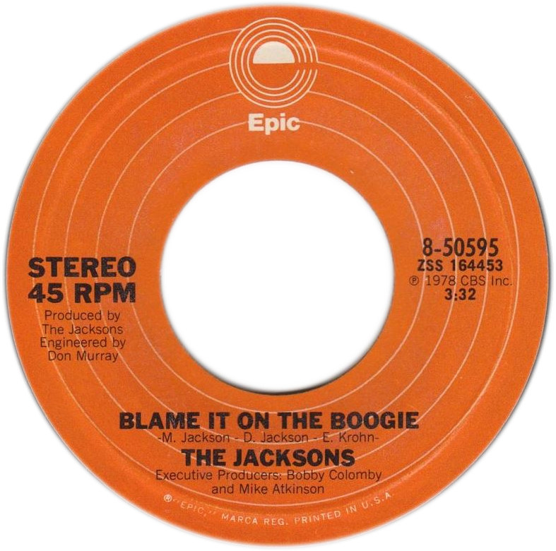 "Blame It on the Boogie" by The Jacksons A-side US vinyl